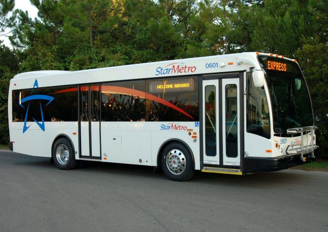 Property of user. Photos of StarMetro fleet gratefully provided on December 29, 2006 by: Charles Whaley, Supervisor of Equipment Services, City of Tallahassee StarMetro, 555 Appleyard Drive, Tallahassee, Florida, 32304. Office (850) 891-5564.